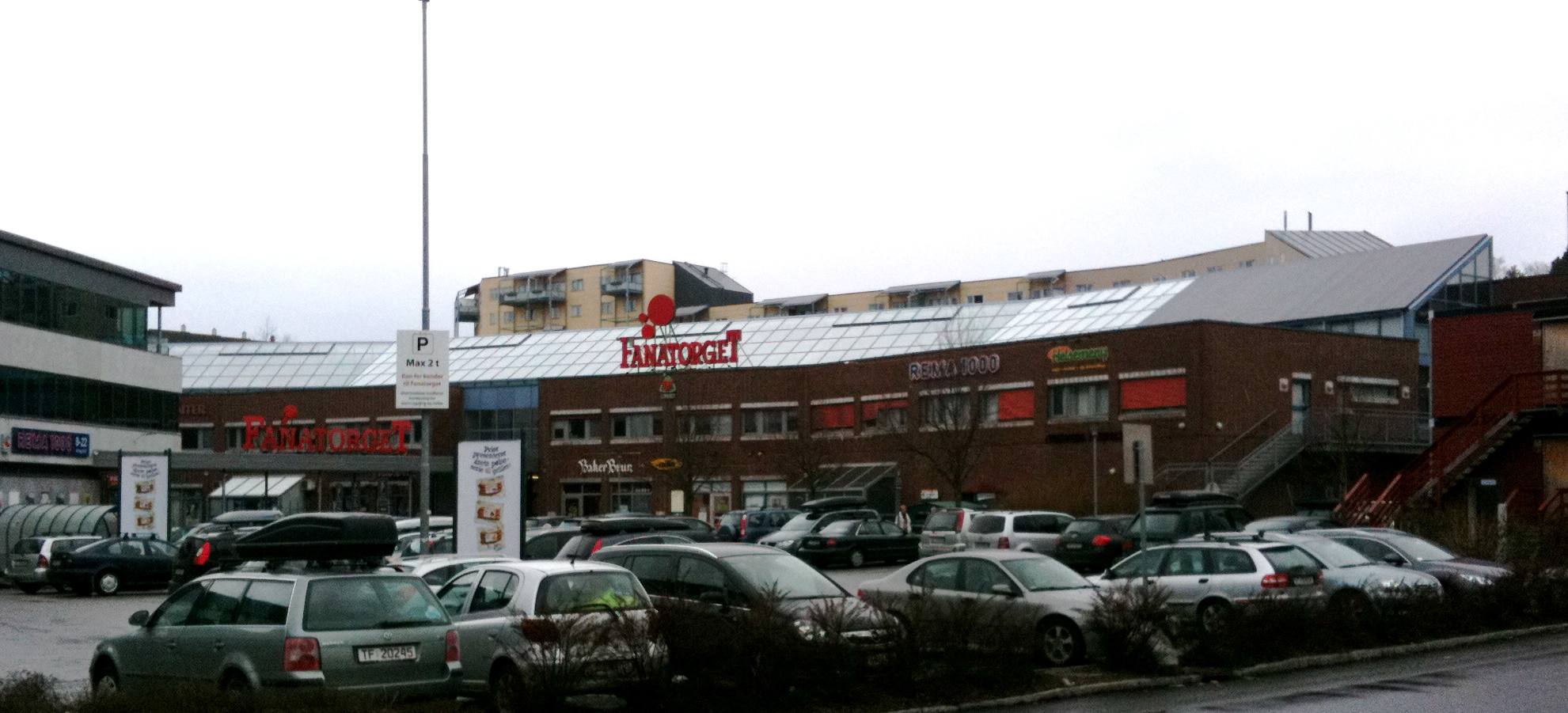 Fanatorget a shopping mall in Bergen, Norway